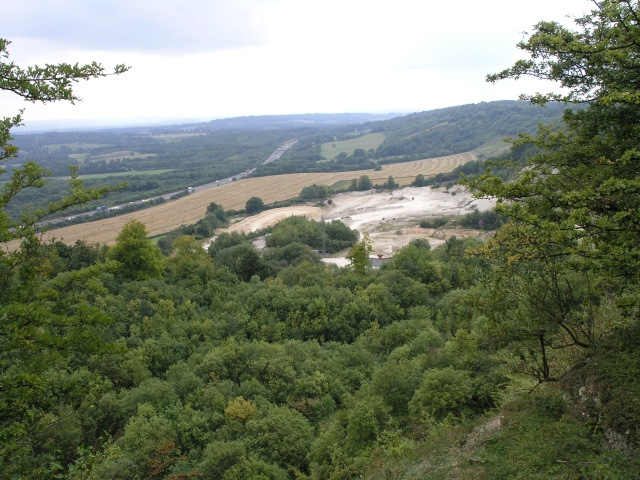 Quarry, looking down from the top. Looking down from the edge of the quarry that occupies much of this square.